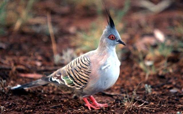 A modified (cropped, tone adjusted, size reduced) version of the Image:Ocyphaps lophotes (01).jpg.